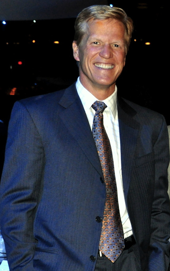 "Brian Grant Parkinson Benefit- Rose Garden, Portland, Oregon" Posted to Picasa Web Albums under CC-BY 3.0, cropped from original.